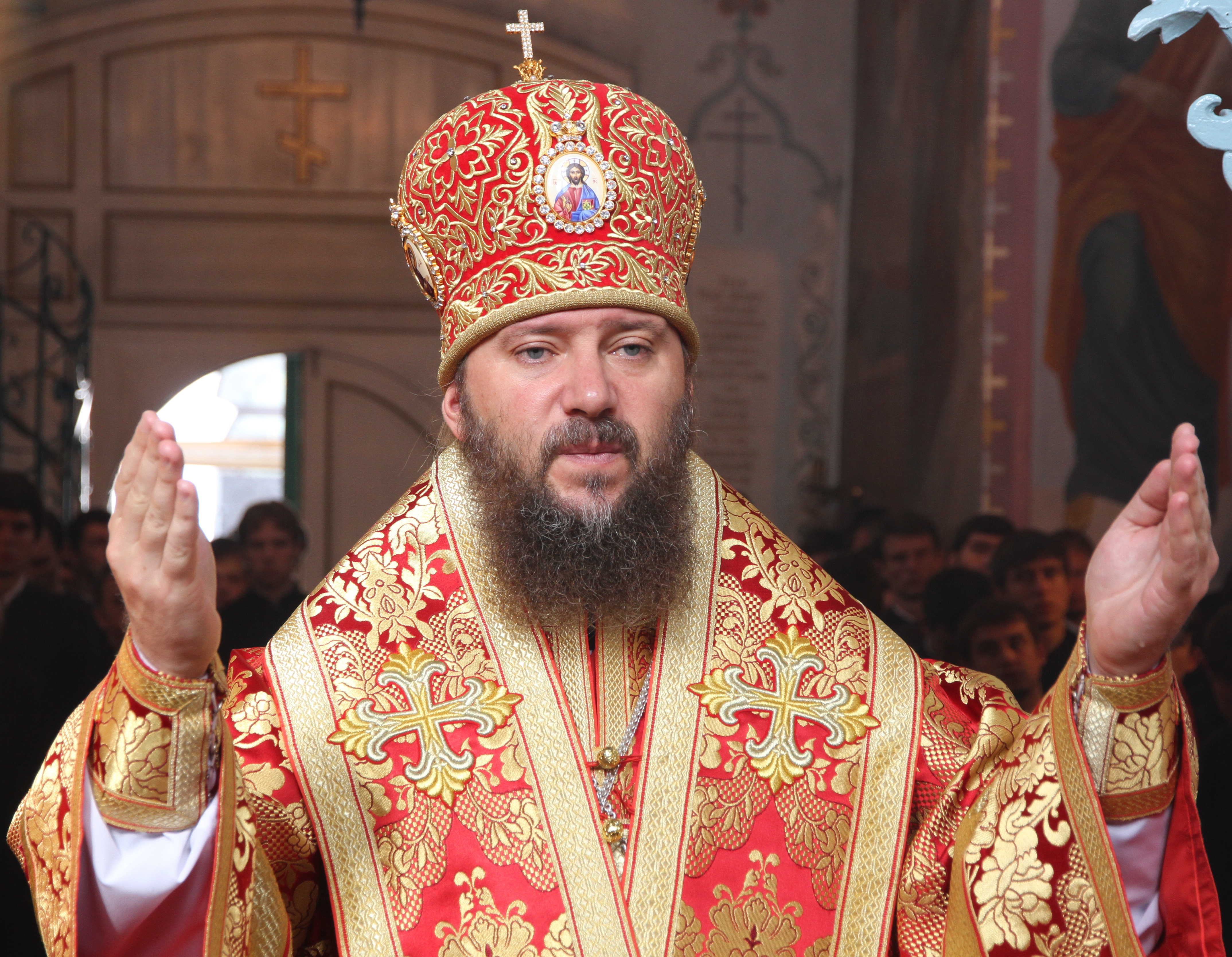 Metropolitan Anthony (Pakanych) during the liturgy in the Academic Church of the Nativity of the Blessed Virgin Mary on the occasion of the commemoration day of St. John Theologian